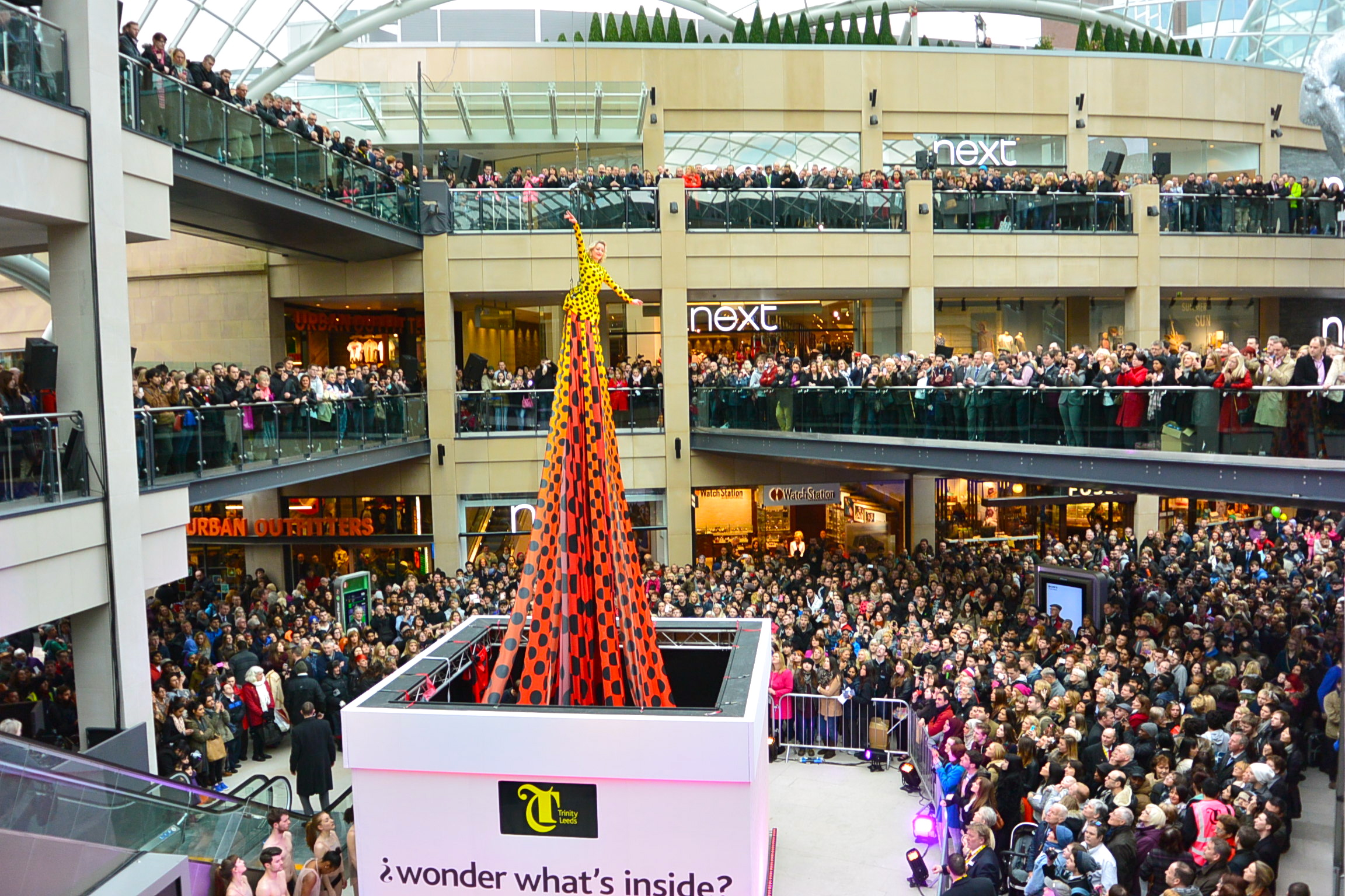 The opening day at Trinity Leeds. Taken by Flickr user:EG Focus on Thursday the 21st of March 2013.